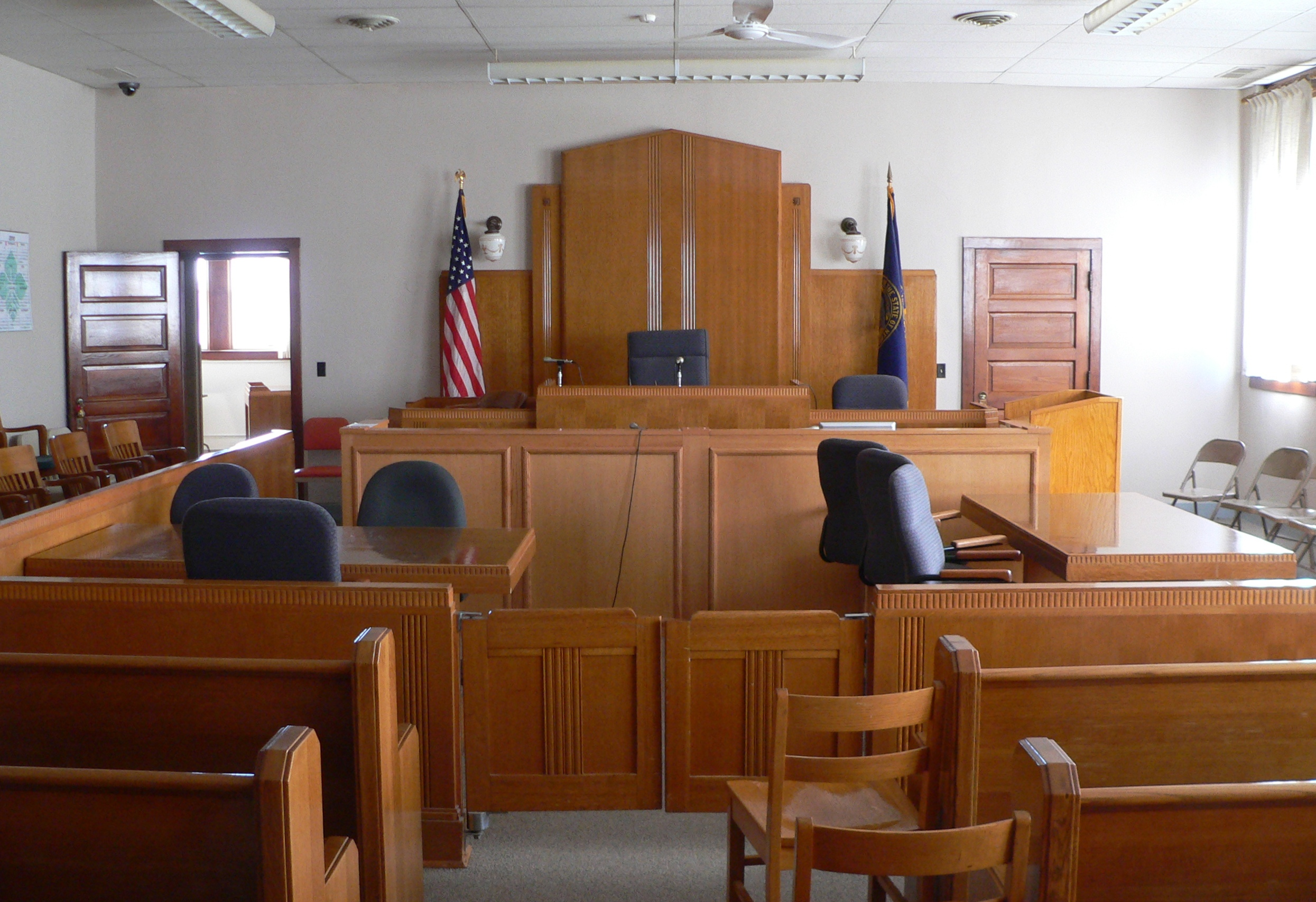 Courtroom in Knox County Courthouse in Center, Nebraska. The courthouse was built in 1934, and is listed in the National Register of Historic Places.